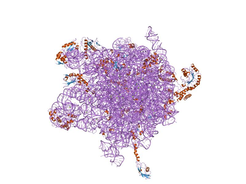 Cartoon representation of the molecular structure of protein registered with 2j28 code.